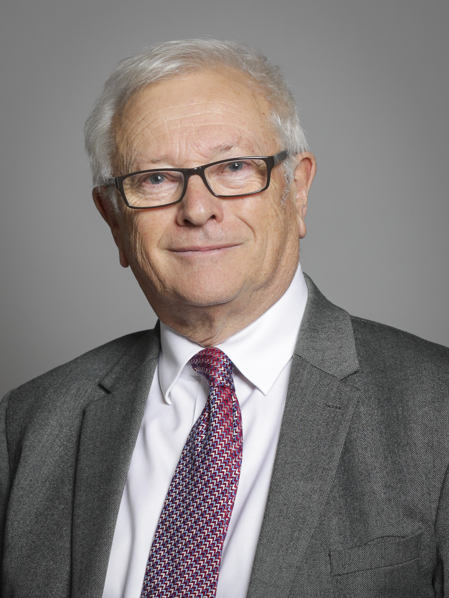 Official portrait of Lord Bach 3×4 portrait of Lord Bach